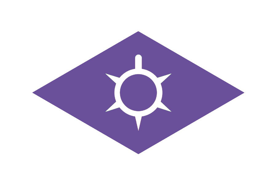 Flag of Kofu, Yamanashi